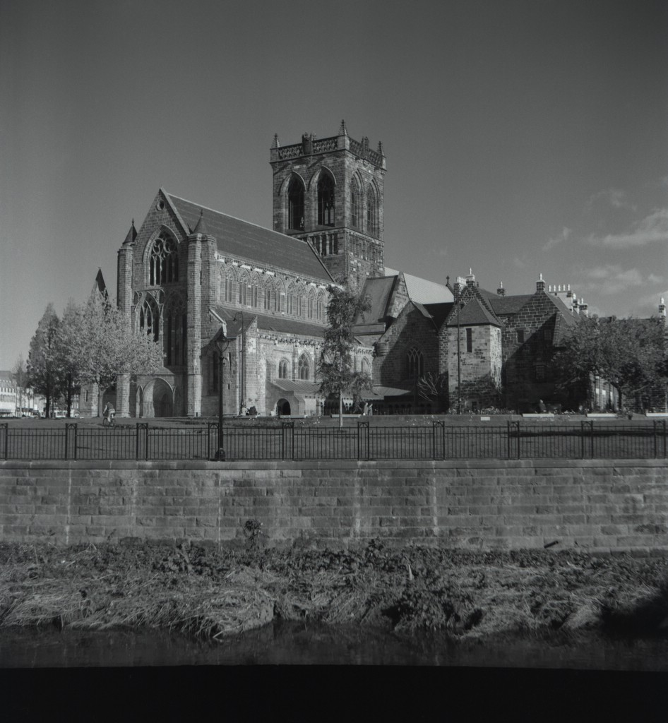 Paisley Abbey (Scotland) viewed from Forbes Place.